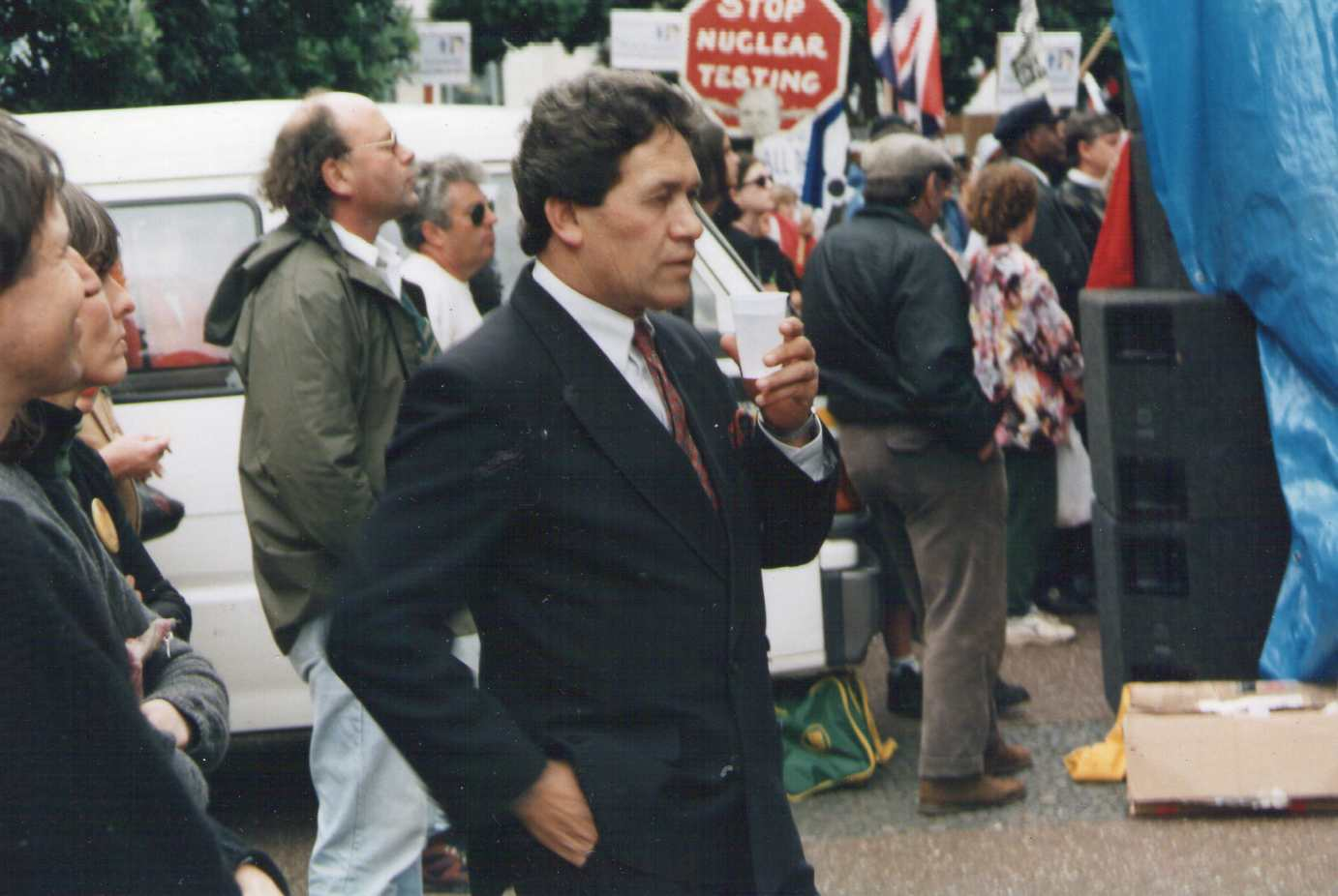 Winston Peters in Auckland, election time. Mid-1990s. Likely to be the 1993 election as a nuclear testing placard features a caricature of Mike Moore who was Labour Party leader during the 1993 election campaign.